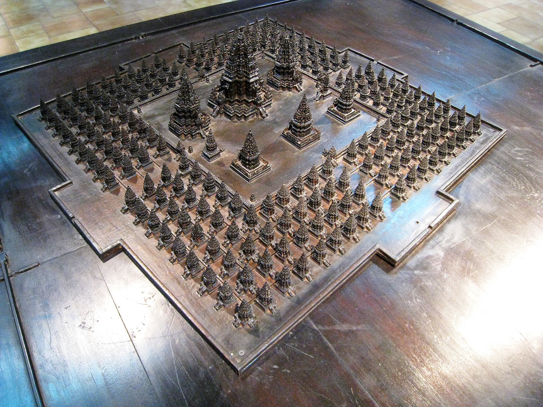 The architectural model of Prambanan temple compounds. The model depicted whole reconstructed temples within Prambanan temple complex. "Safeguarding a Common Heritage of Humanity", an Exhibition of Prambanan and Sewu Temple, Bentara Budaya Jakarta, 15-24 January 2010.